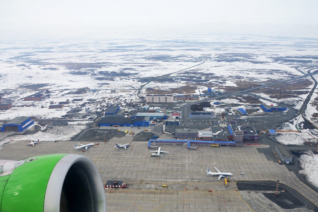 Flight to Novosibirsk. Apron view. Four Boeing 737 and An-26 RA-26675 (on the left). Thanks to Olga Kochetova for uploading permission.